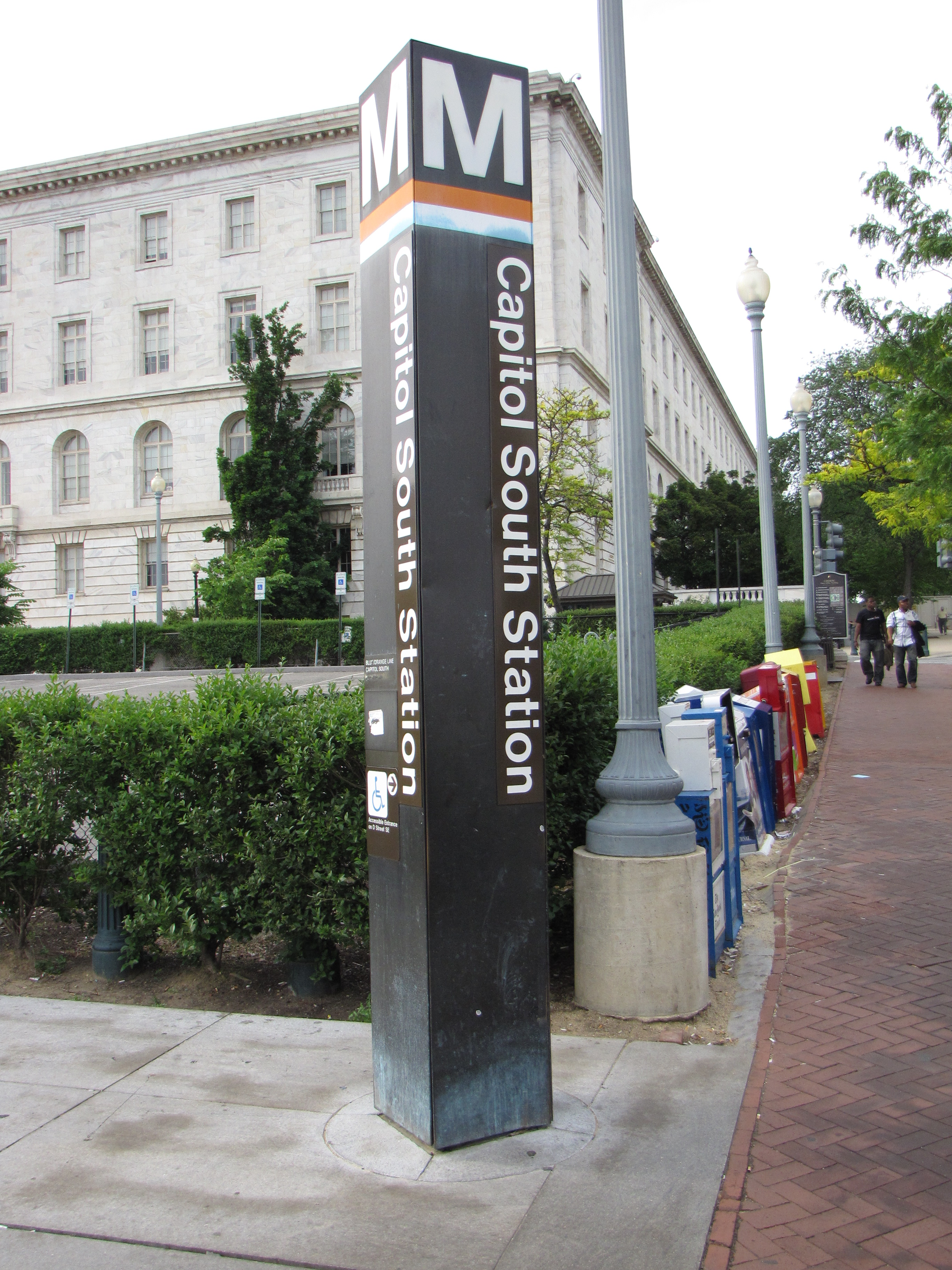 Station entrance pylon for Capitol South station on the Washington Metro.